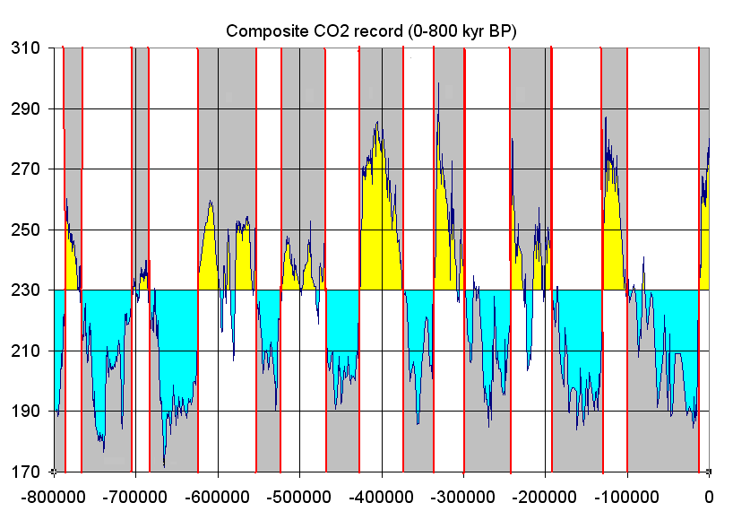 Ice core data estimates of Atmospheric CO2 over the last 800 millennia.